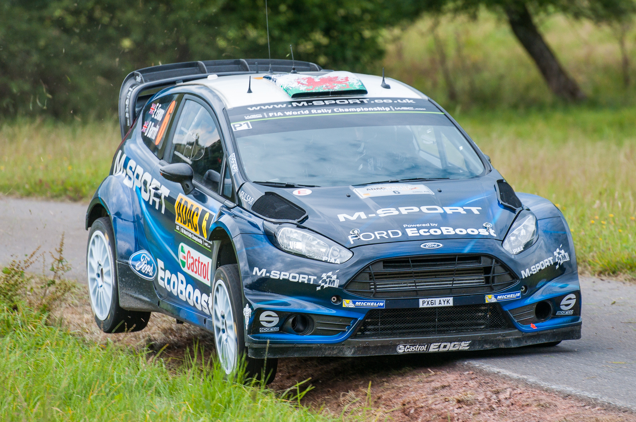 ADAC Rallye Deutschland 2014,Daniel Barritt,Elfyn Evans,FIA,FIA World Rally Championship,Ford Fiesta RS WRC,M-Sport WRT,M-Sport World Rally Team,Motorsport,Rally,Rallye,SS 5,WP 5,WRC,Waxweiler 2